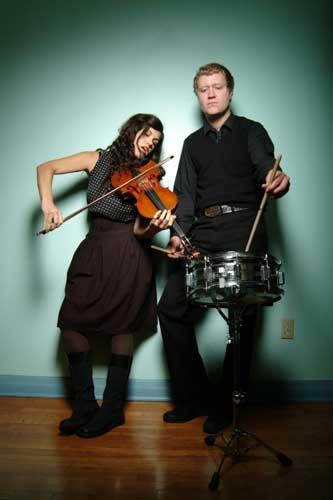 Talkdemonic. Photo by Timothy Murray